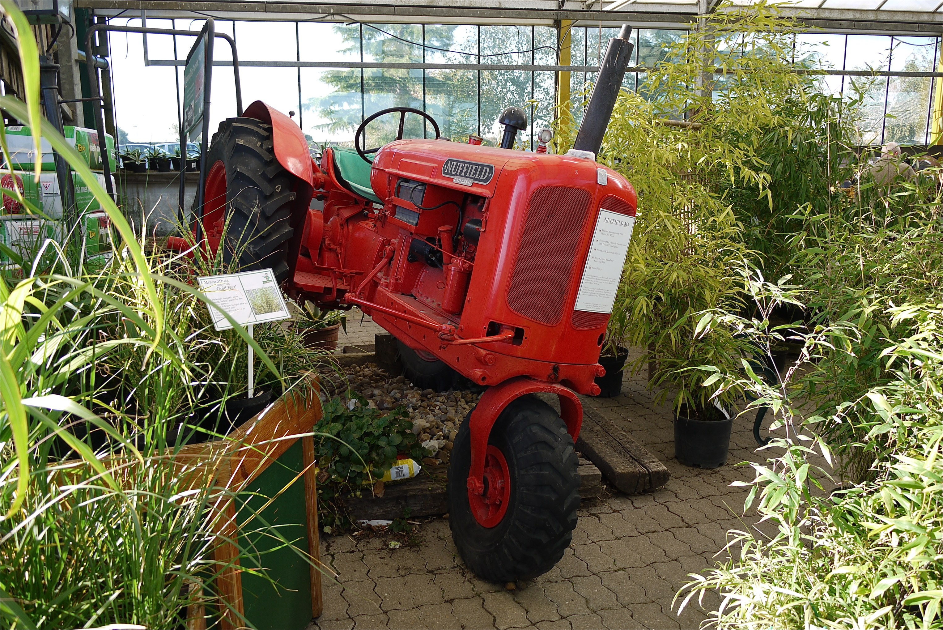 Nuffield M4 Universal tractor at Baytrees Garden Centre near Spalding Lincolnshire. Panasonic G1 14-45 Lens